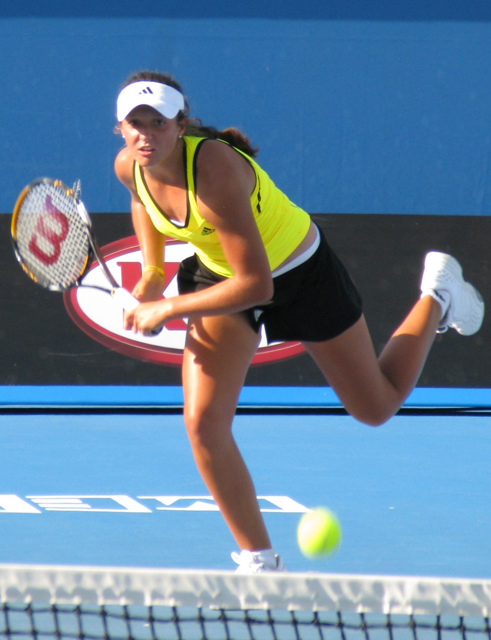 Laura Robson playing in the 2009 Australian Open junior girls' singles event